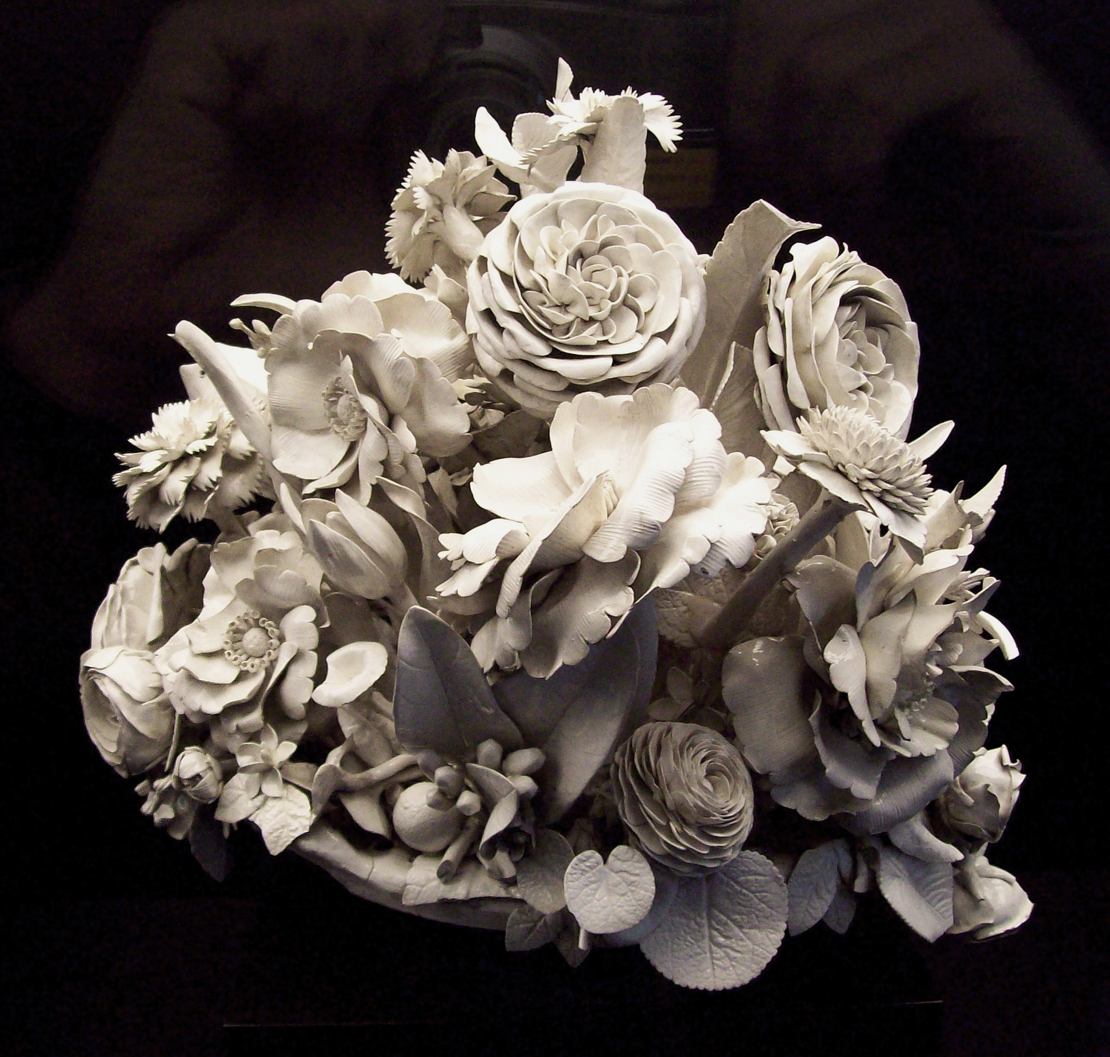 A flower centerpiece.